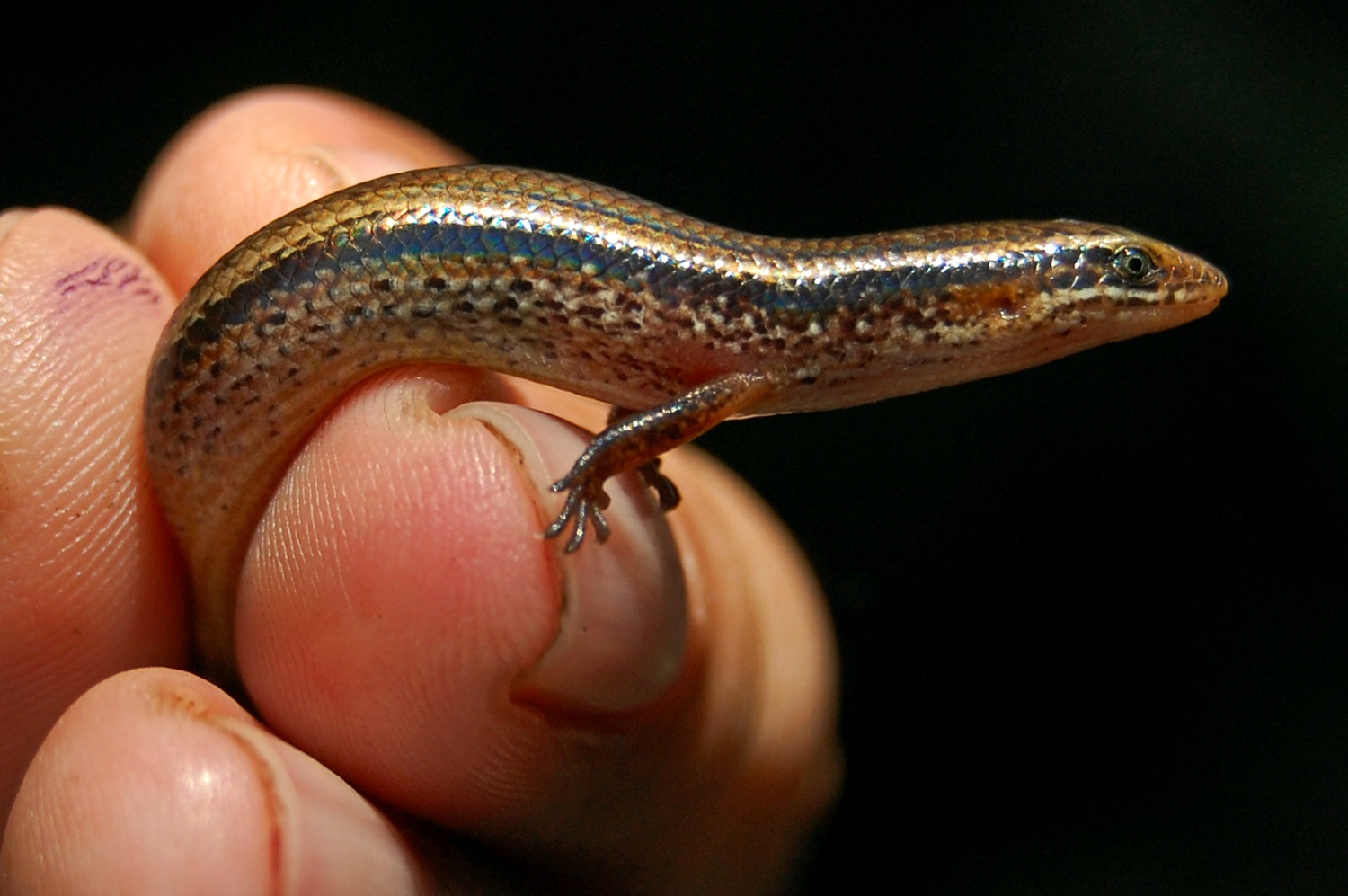 Bowring's Supple Skink Lygosoma bowringii. From Bogor, West Java, Indonesia